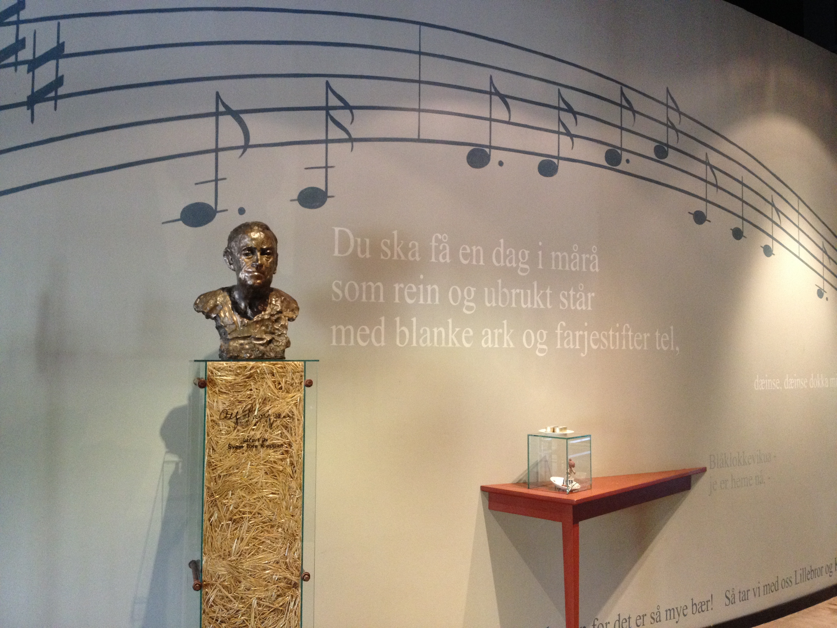 From exhibitions at Prøysenhuset, museum to Alf Prøysen , in Ringsaker Norway